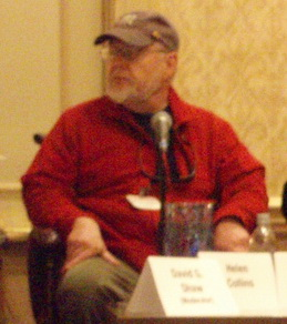 ) Barry Longyear